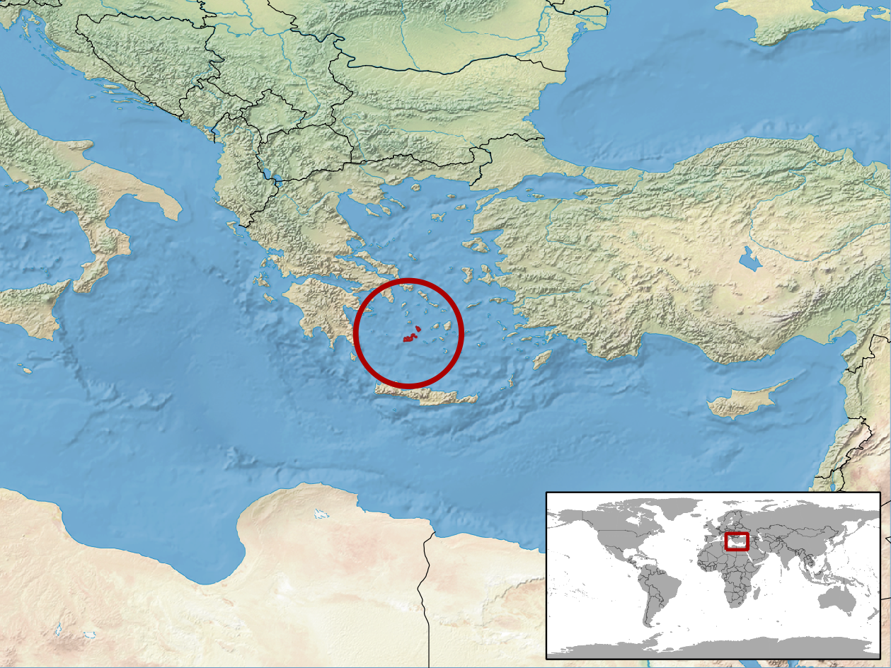 geographic distribution of Macrovipera schweizeri (Native: Greece)